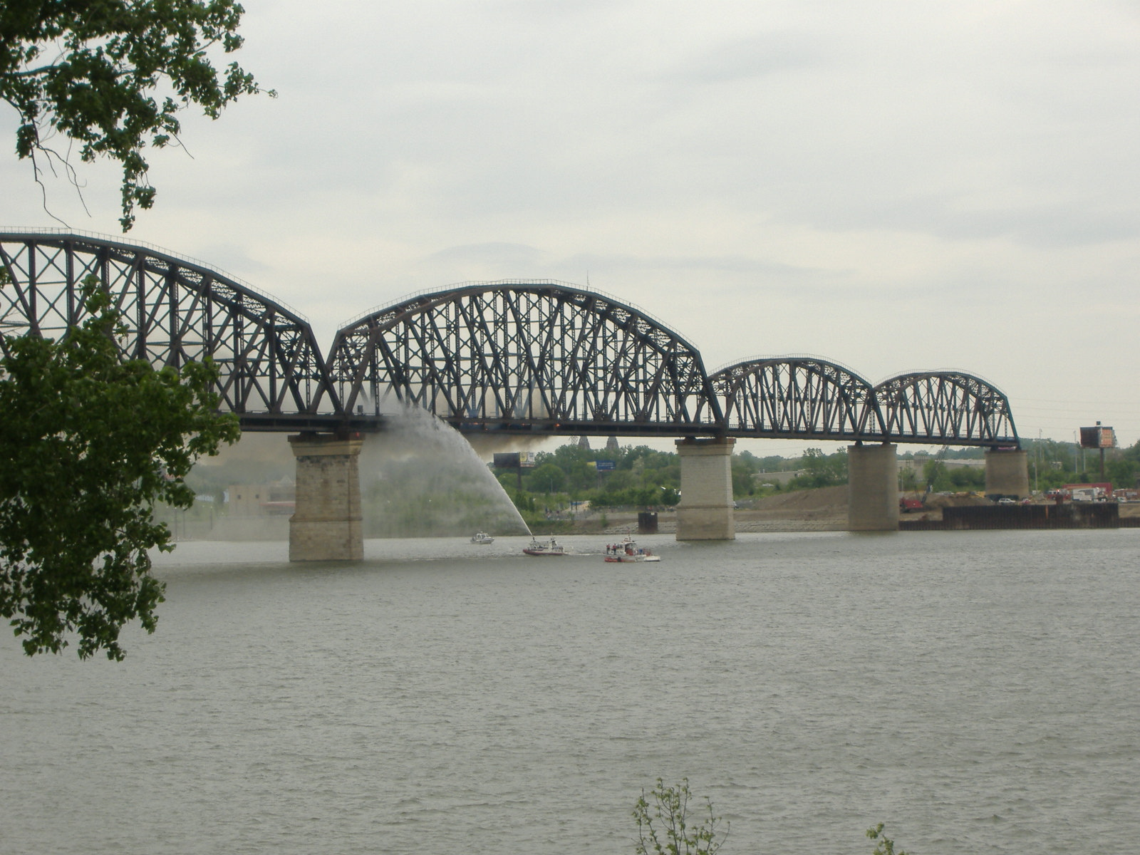 Image of the Big Four Bridge on fire on May 7, 2008.